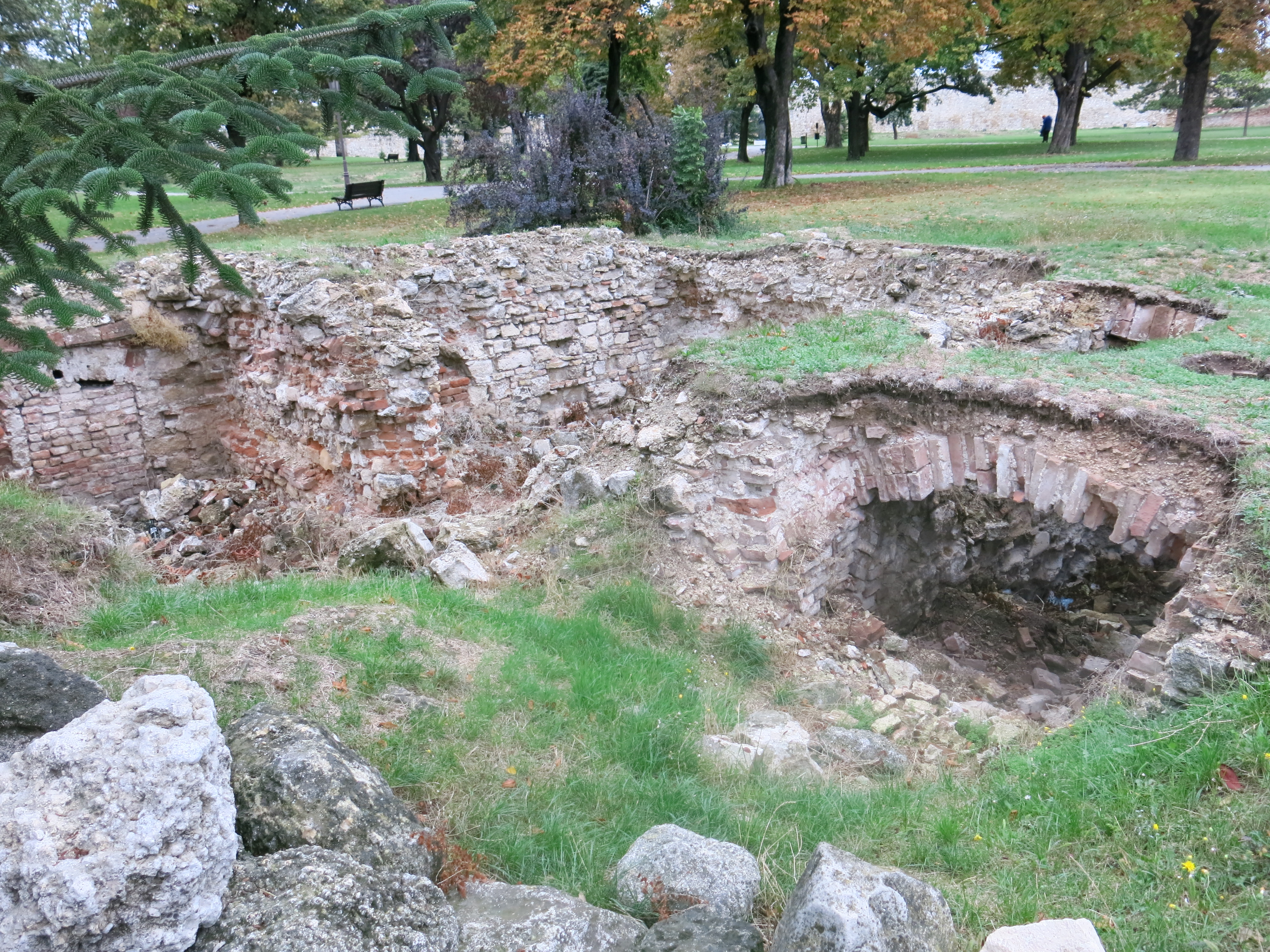 Belgrade Fortress consists of the old citadel (Upper and Lower Town) and Kalemegdan Park (Large and Little Kalemegdan) on the confluence of the River Sava and Danube, in an urban area of modern Belgrade, the capital of Serbia. It is located in Belgrade's municipality of Stari Grad. Belgrade Fortress was declared a Monument of Culture of Exceptional Importance in 1979, and is protected by the Republic of Serbia. It is the most visited tourist attraction in Belgrade, with Skadarlija being the second. Since the admission is free, it is estimated that the total number of visitors (foreign, domestic, citizens of Belgrade) is over 2 million yearly.